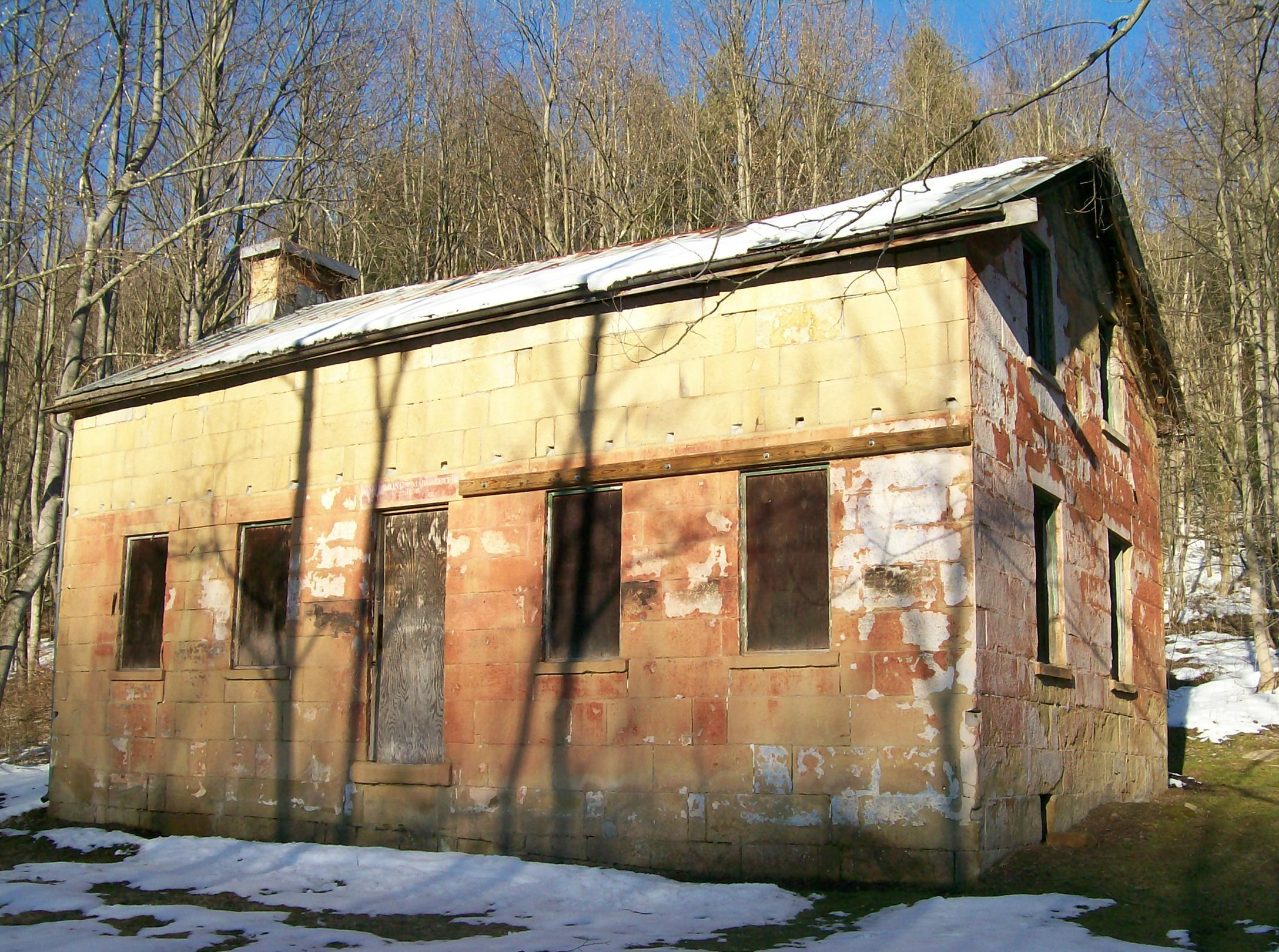 The Walter Ring House. This house is the only standing structure on the historic Walter Ring House & Mill Site. The site was placed on the NRHP. Photographed looking northeast. Taken March 4, 2010.